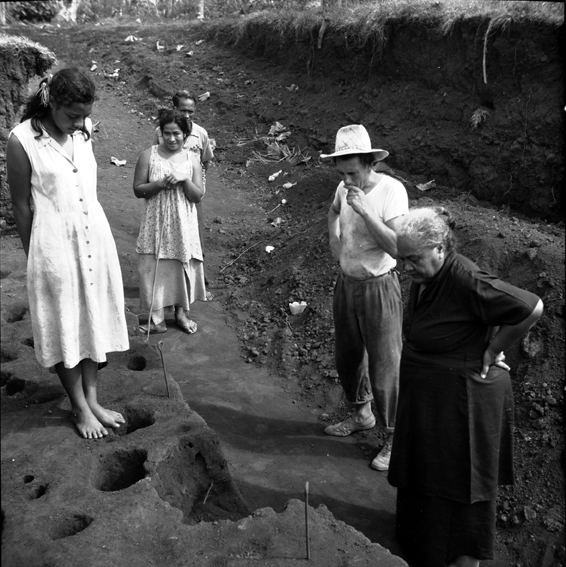 Excavation in Vailele, north coast of Upolu Island in Samoa, showing New Zealander Jack Golson at a dig site and members of I'iga Pisa family visiting. 1957. Gagana Samoa: O le su'esu'ega i lalo o le 'ele'ele a le saienitisi Jack Golson (Niu Sila) i Vailele, Samoa, 1957. Ae o lo'o matamata tagata mai le aiga o I'iga Pisa.